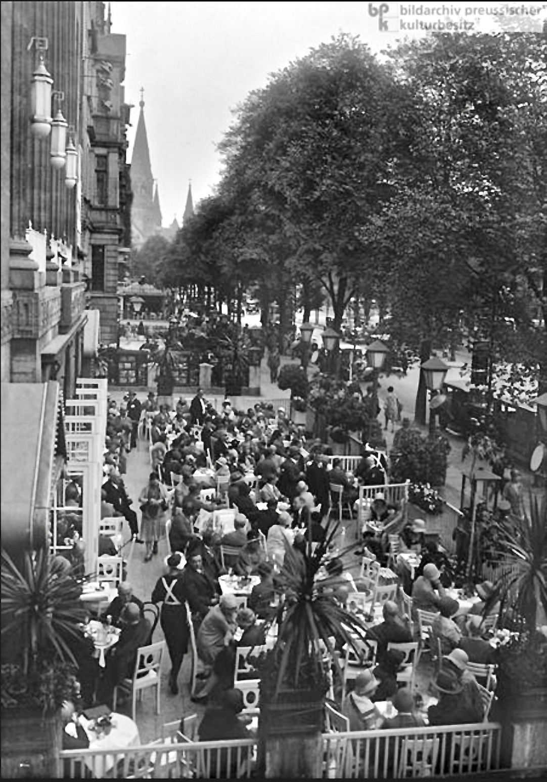 Exterior view of Café Wien which existed since 1919 at Kurfurstendamm in Berlin, Germany. Its owner Karl Kutschera (1876–1950) also held the cinema Filmbühne Wien (managed by UFA of Potsdam Babelsberg) in the same building with nearly 900 seats and from 1930 the Hungarian restaurant Zigeuner Keller in the basement which was accessable via an entrance in the adjacent building. In the background the silhouette of Kaiser Wilhelm Memorial Church